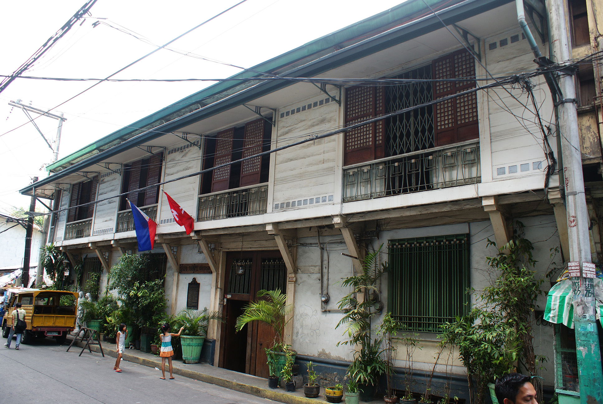 The photo taken at the front-right side view of the house from the Bautista Street.